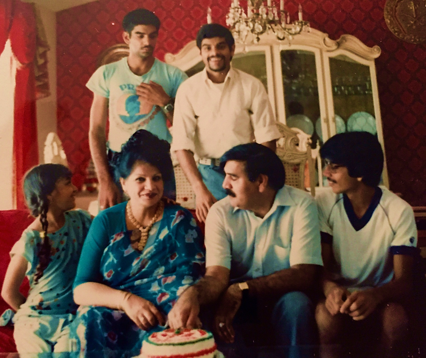 Mansoor IJAZ Family Library